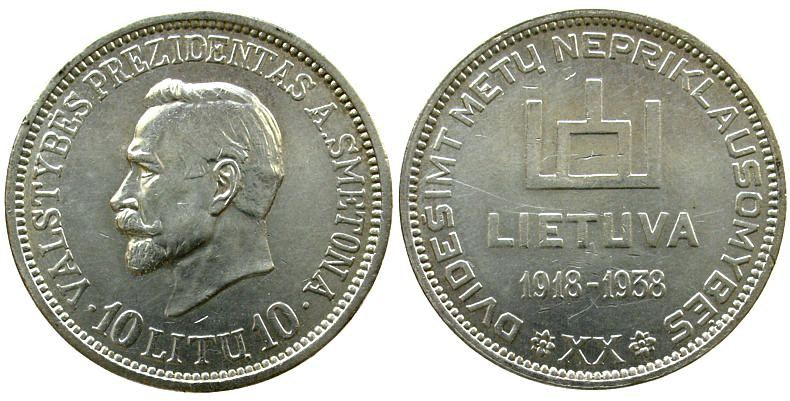 10 litai coin 1938, Lithuania